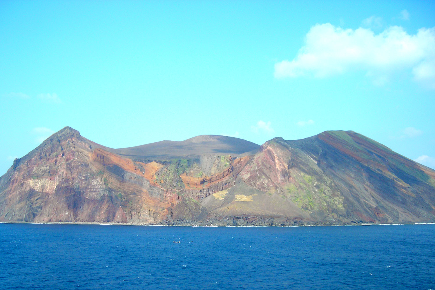 The island of Torishima, Izu Islands, Japan